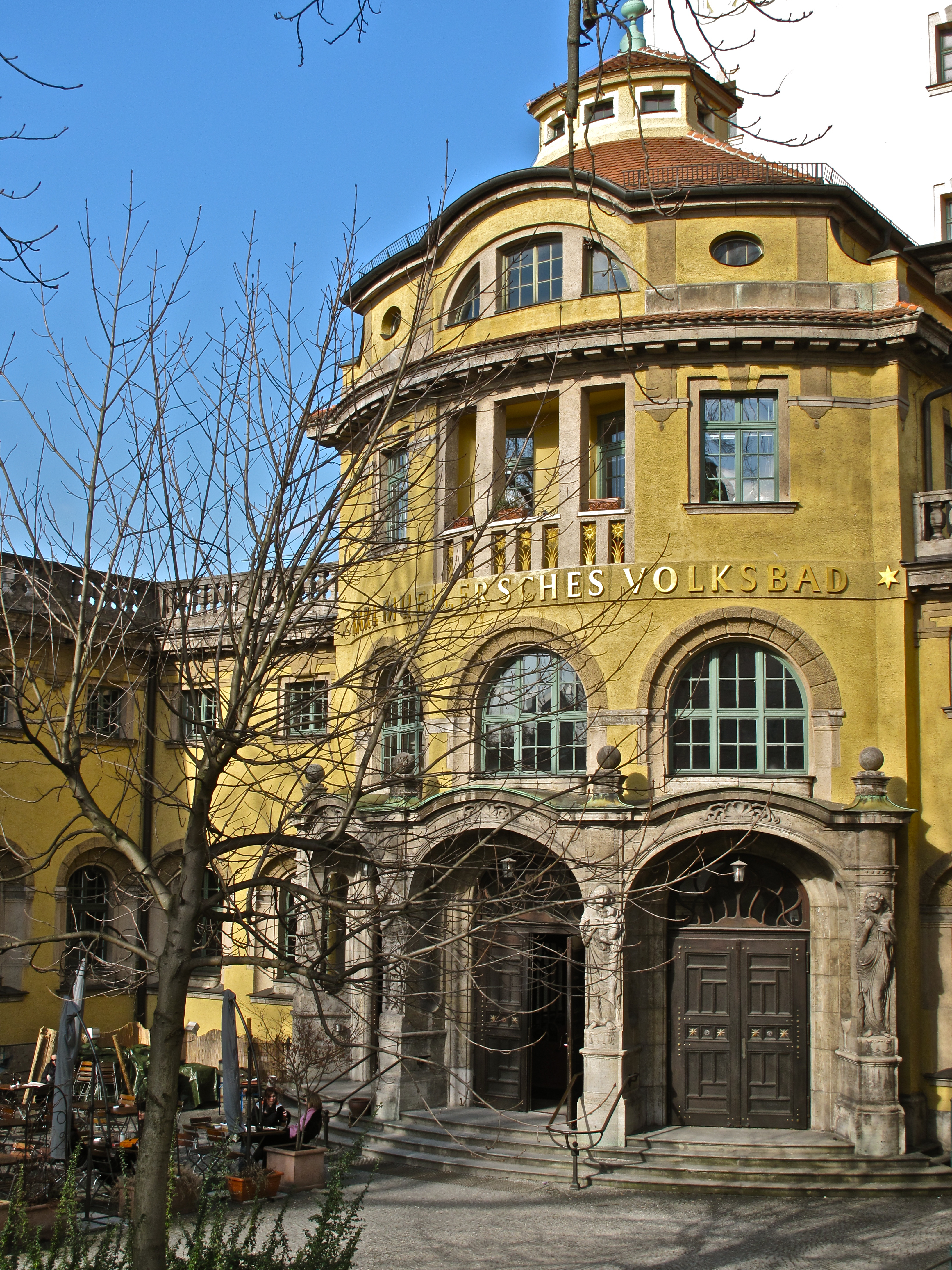 The entrance to the swimming pool "Müllersches Volksbad" in Munich.